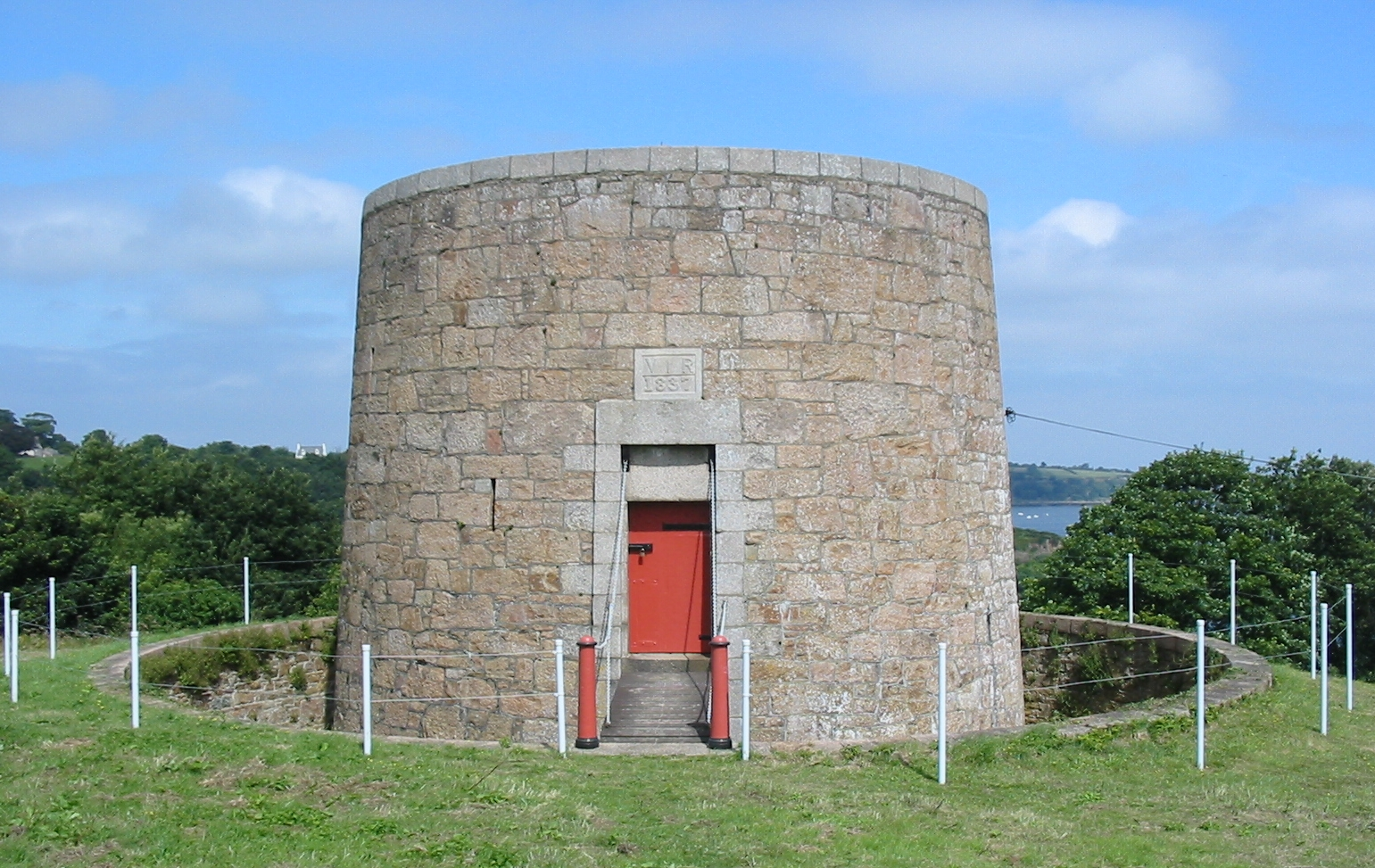 Jersey Nrf: Jèrri